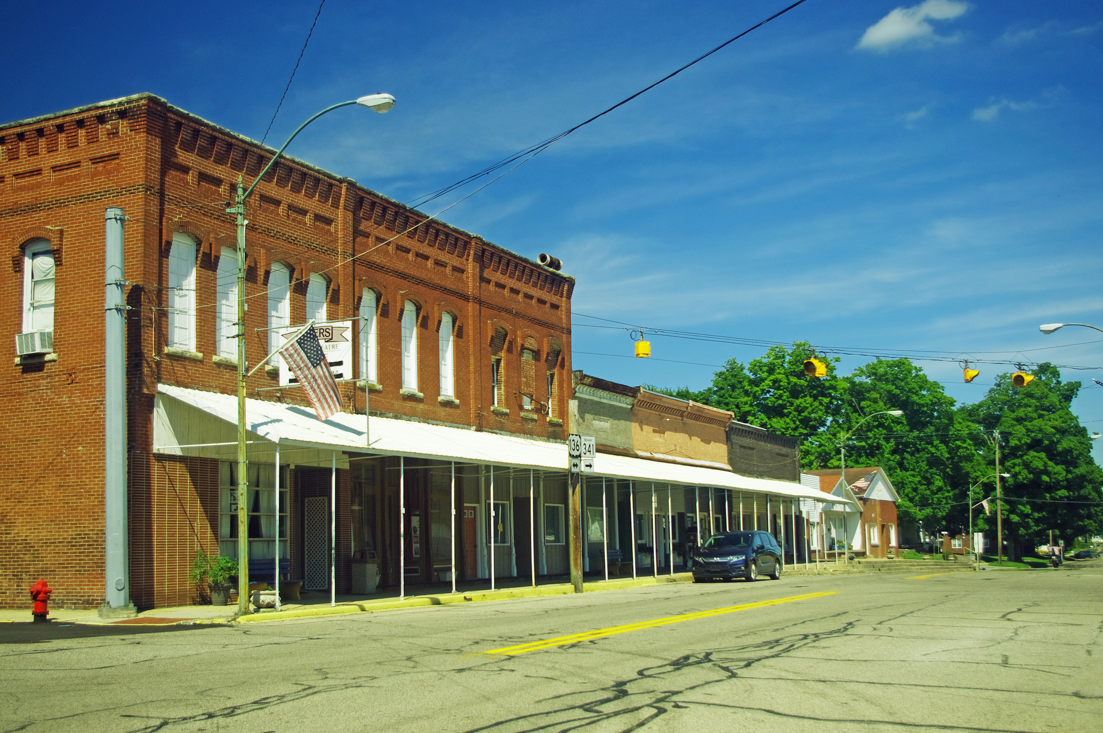 Businesses along Main Street (U.S. Route 136) in Hillsboro, Indiana, United States.